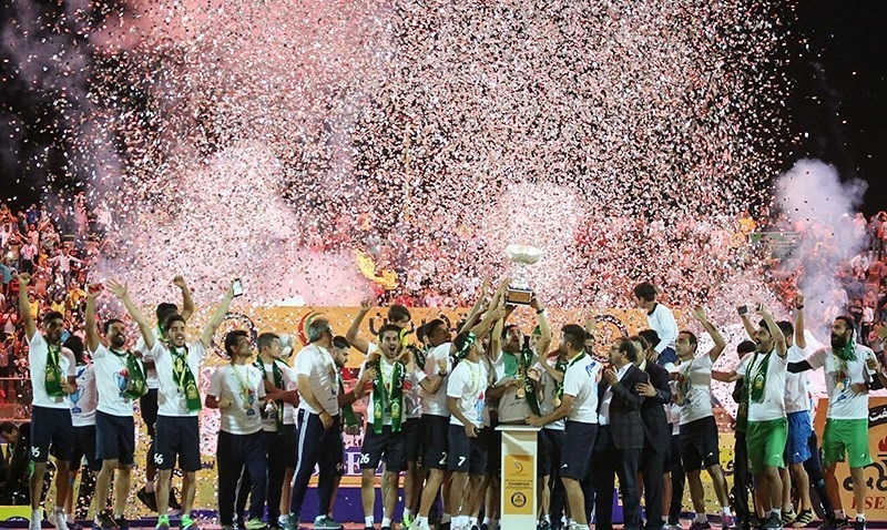 Pars Jam Bushehr promotion ceremony